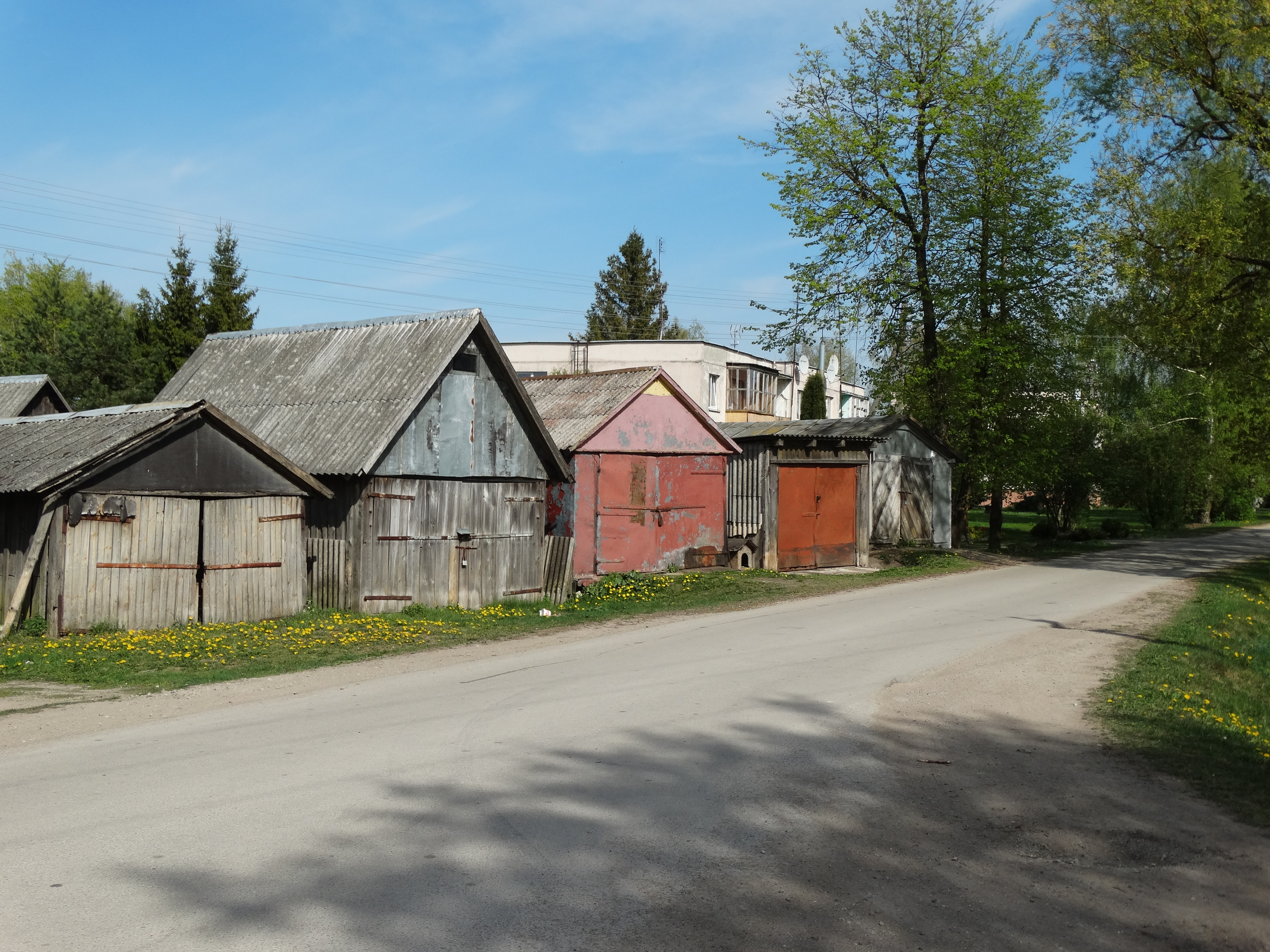 Linkavičiai, Pakruojis District, Lithuania